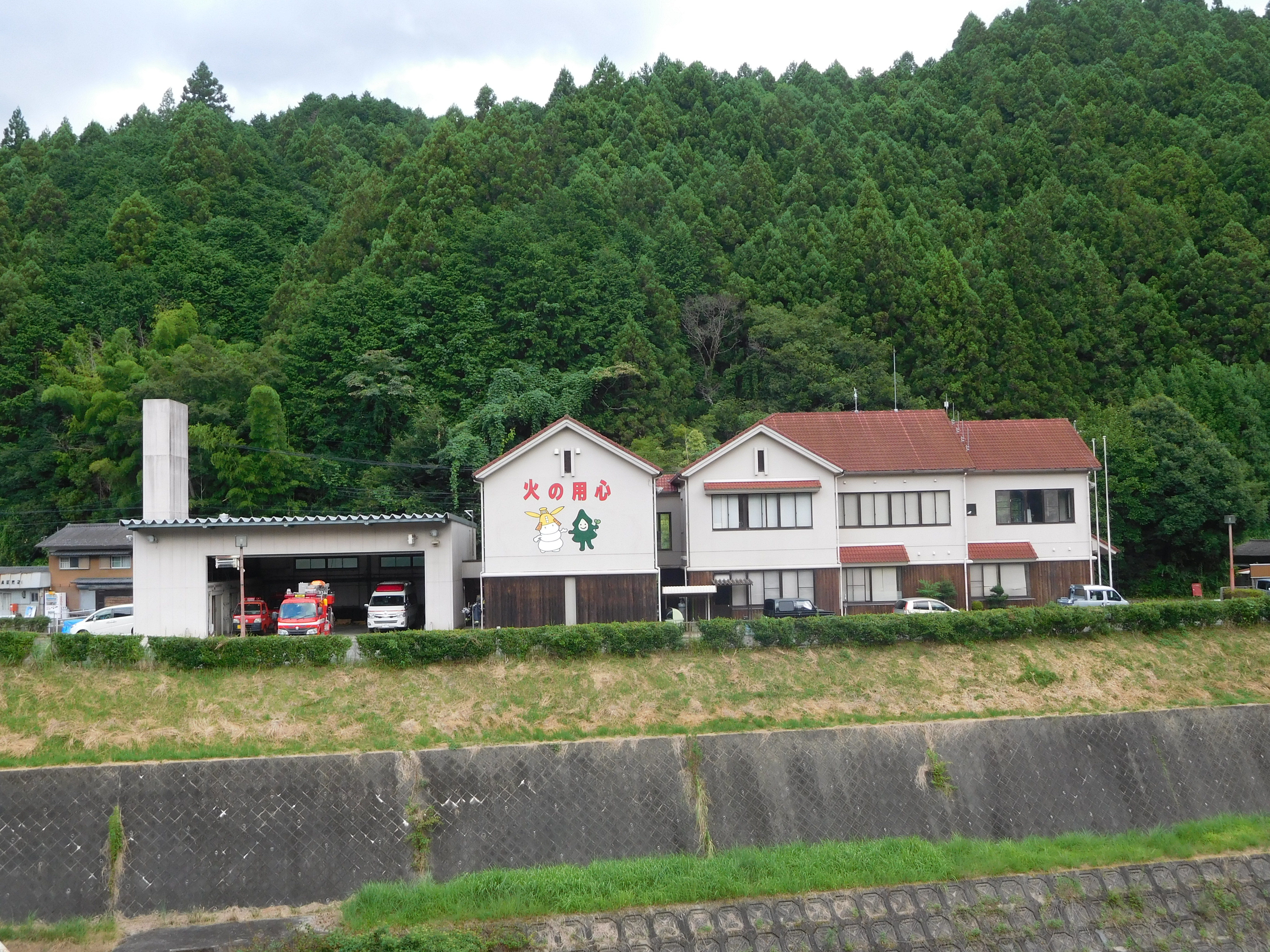 This is Tsu city fire department Hakusan fire station Misugi Branch in Tsu, Mie, Japan.